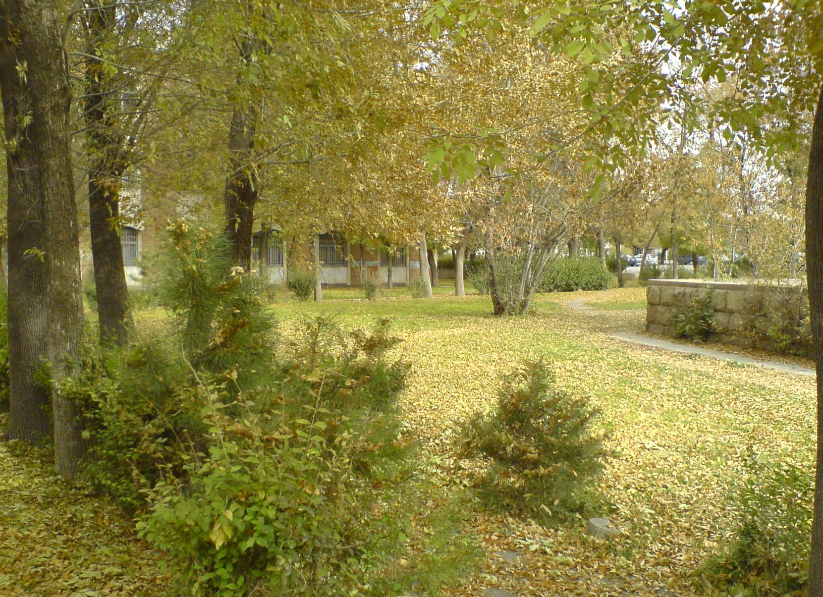 University of Tabriz, Iran, Tabriz